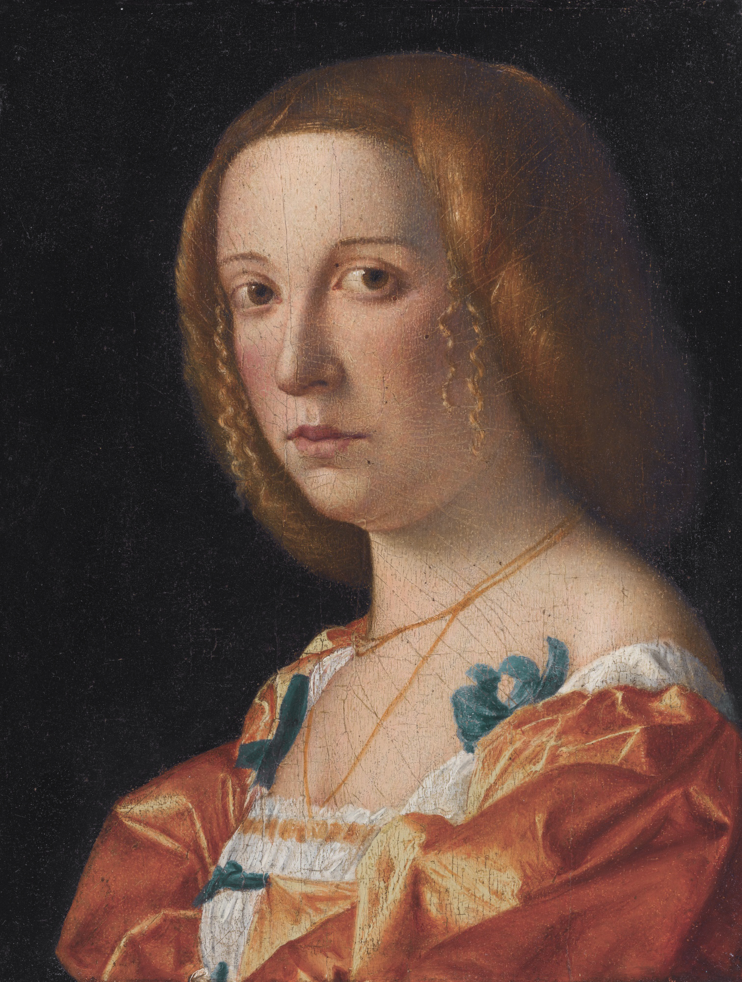 Portrait of a lady oil on panel, mounted on board 35 x 27.5 cm